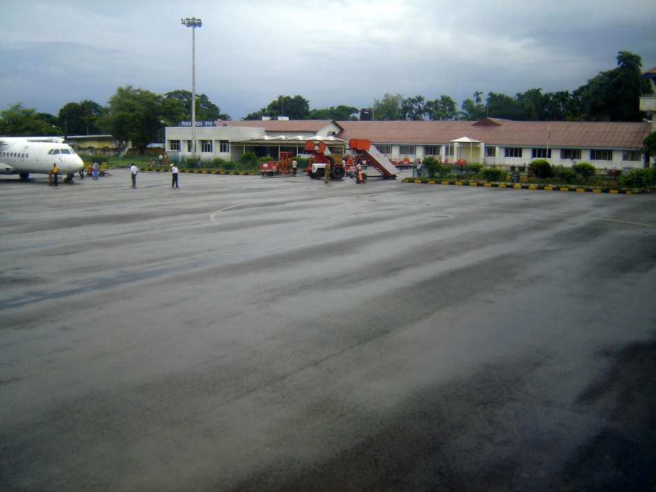 Silchar Airport, shot upon alighting from Alliance Air Boeing 737-200, on a rainy day with 1000m visibility.